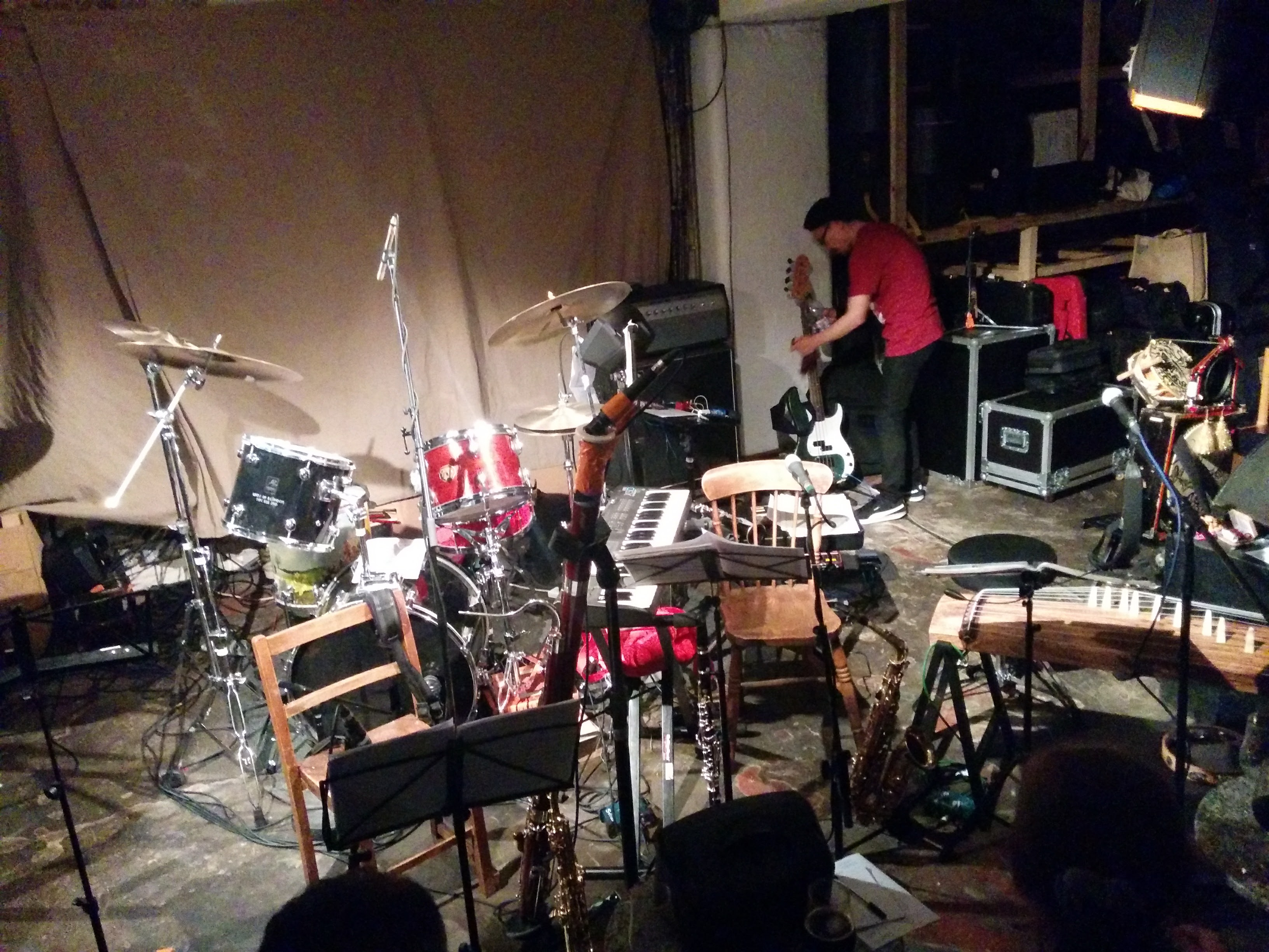 Bassist Nasuno Mitsuru preparing before the second set of a live performance by the band Half the Sky at Cafe OTO. Instruments pictured include a drum kit, bassoon, saxophones, keyboard, koto and chindon'ya percussion.